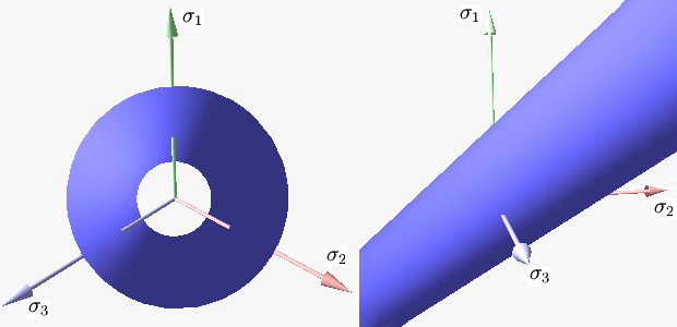 I have made this with qglviewer and marching cubes. It shows HMH yield surface in 3D.